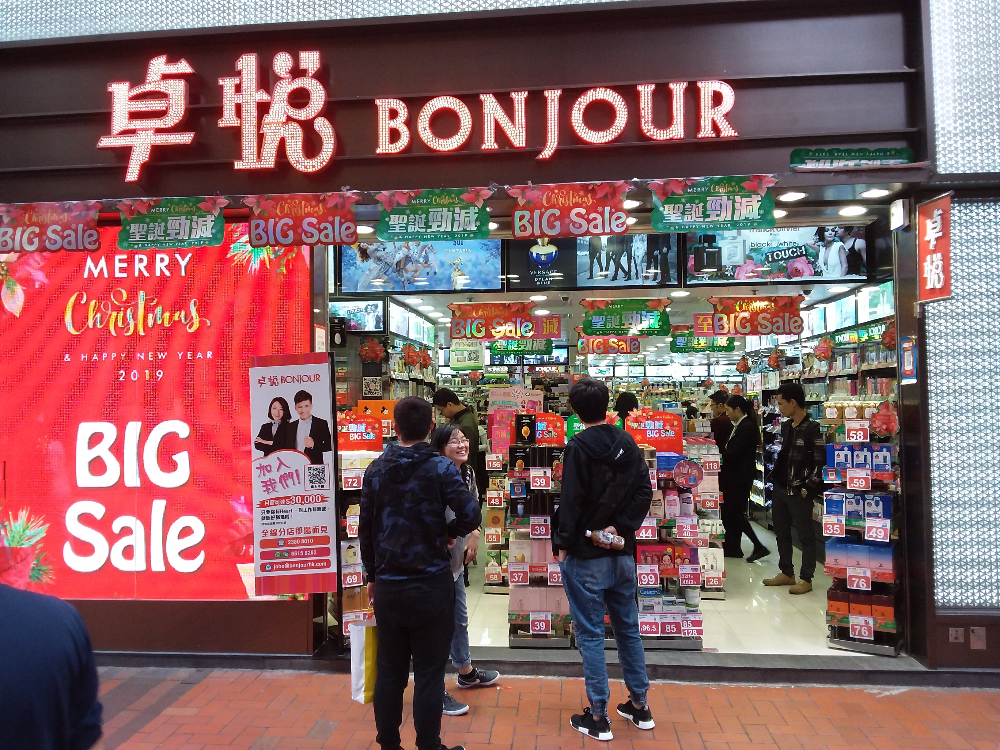 HK CWB 銅鑼灣 Causeway Bay 羅素街 Russell Street in December 2018